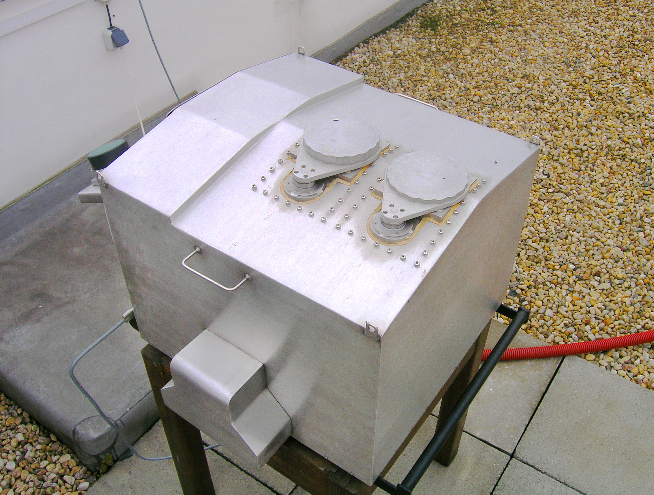 Fireball Camera at the Czech Astronomical Institute in Ondřejov